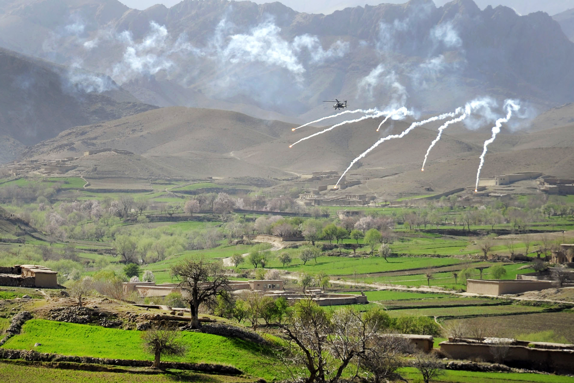 An AH-64 Apache helicopter shoots flares over a valley to support members of the 8th Commando Kandak and coalition special operations forces during a firefight near Nawa Garay village, Kajran district, Daykundi province, Afghanistan, April 3. Coalition SOF partners with the 8th Commando Kandak to conduct operations throughout Daykundi, Uruzgan and Zabul provinces. (Photo ID: 556060)